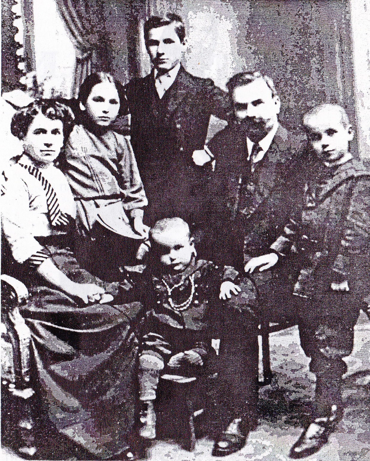 bulgarian revolutionary/ies